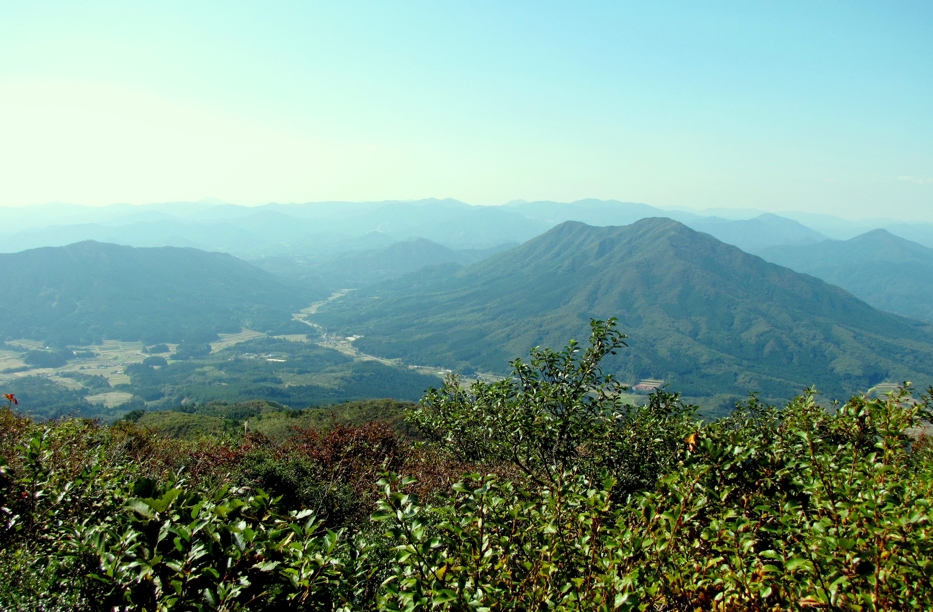 Mount Okura as seen from the ENE in Nichinan, Tottori Prefecture, Honshu, Japan.